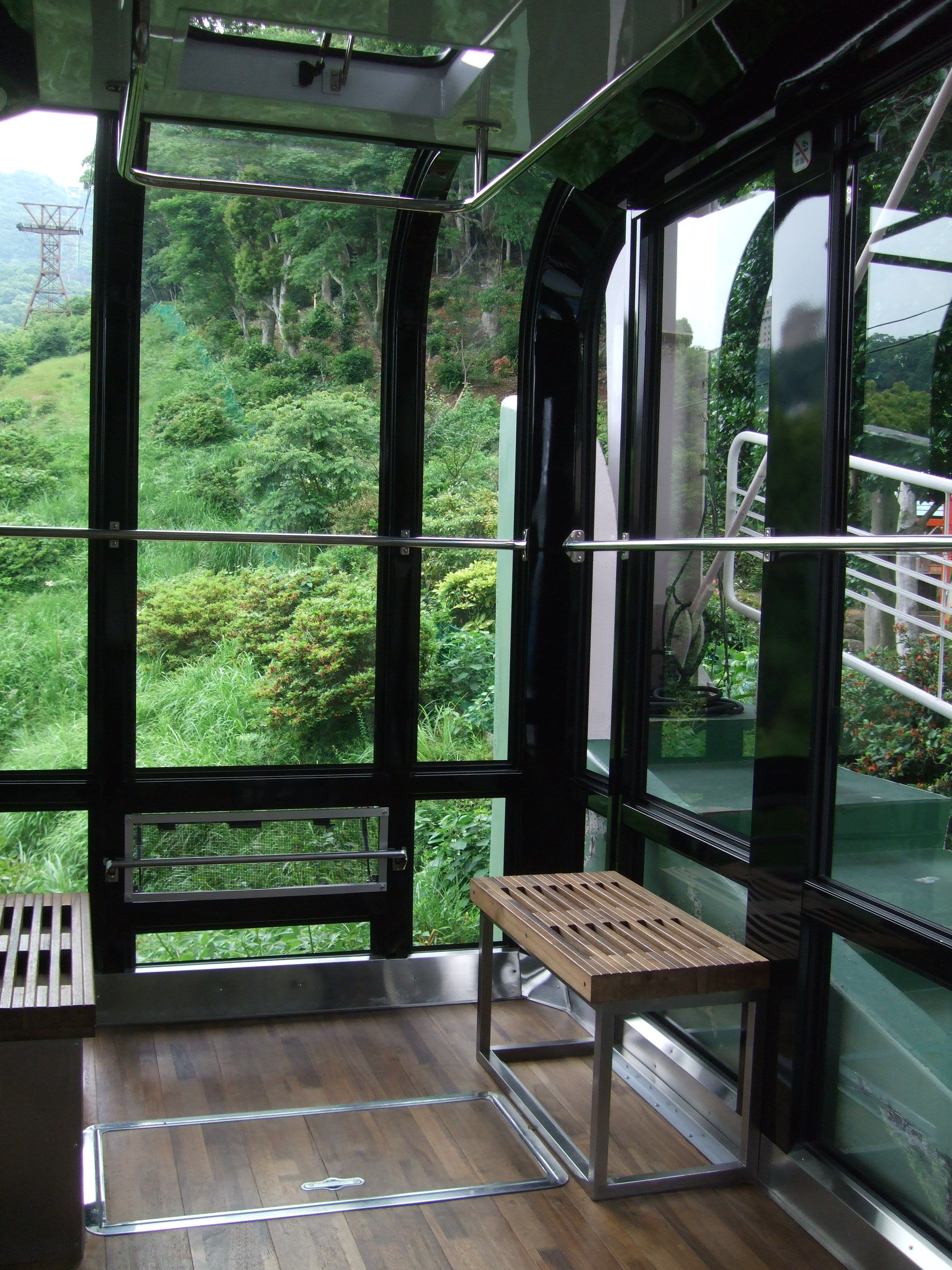 Nagasaki Ropeway Gondola Lift interior.